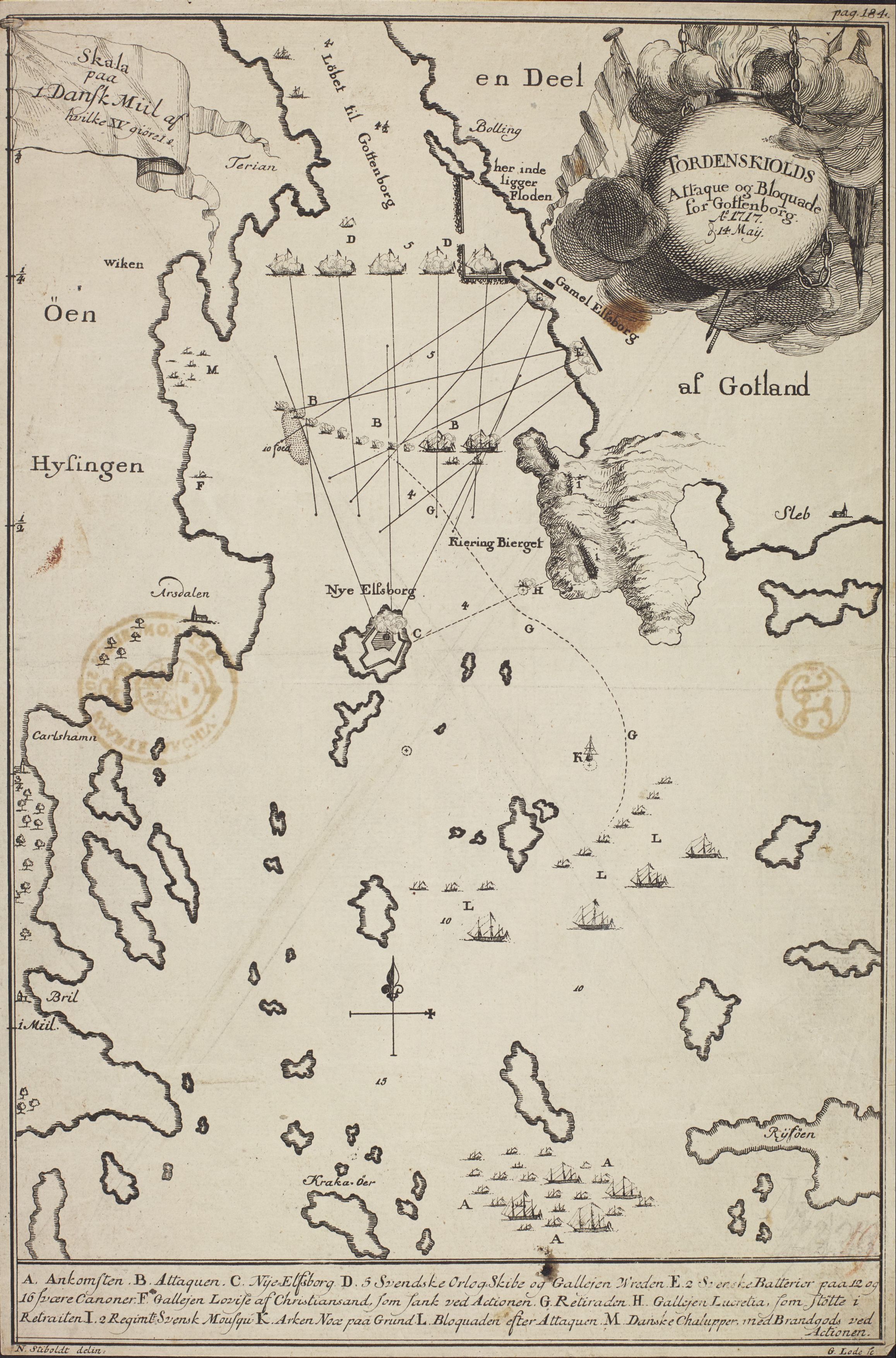 Naval attack and blockade of Gothenburg, Sweden, 1717